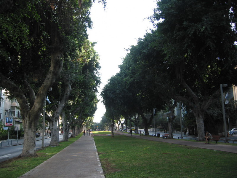 Rothschild Boulevard, Tel Aviv